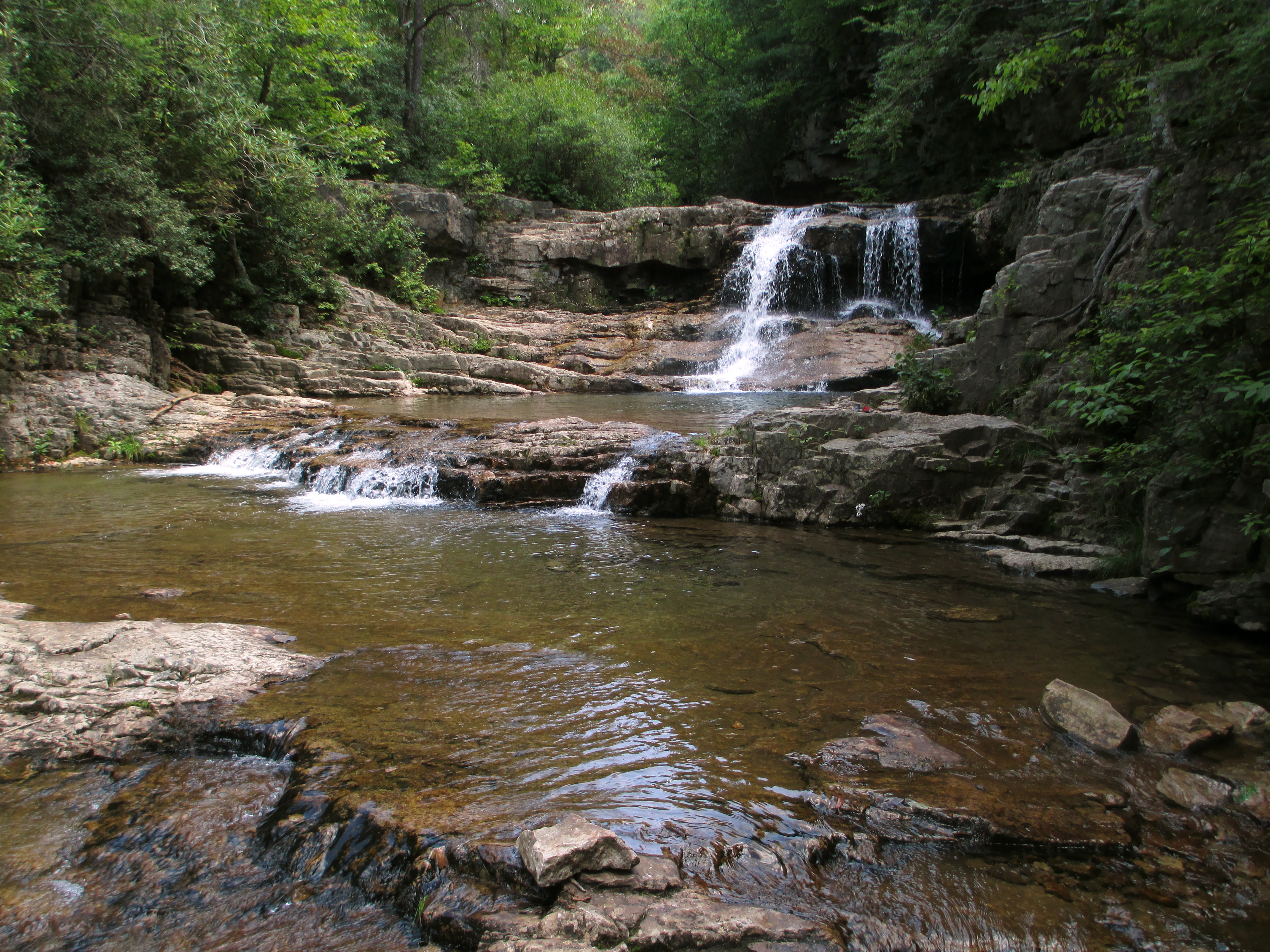 Saint Mary's Falls, within the Saint Mary's Wilderness of the George Washington and Jefferson National Forests, August 2016